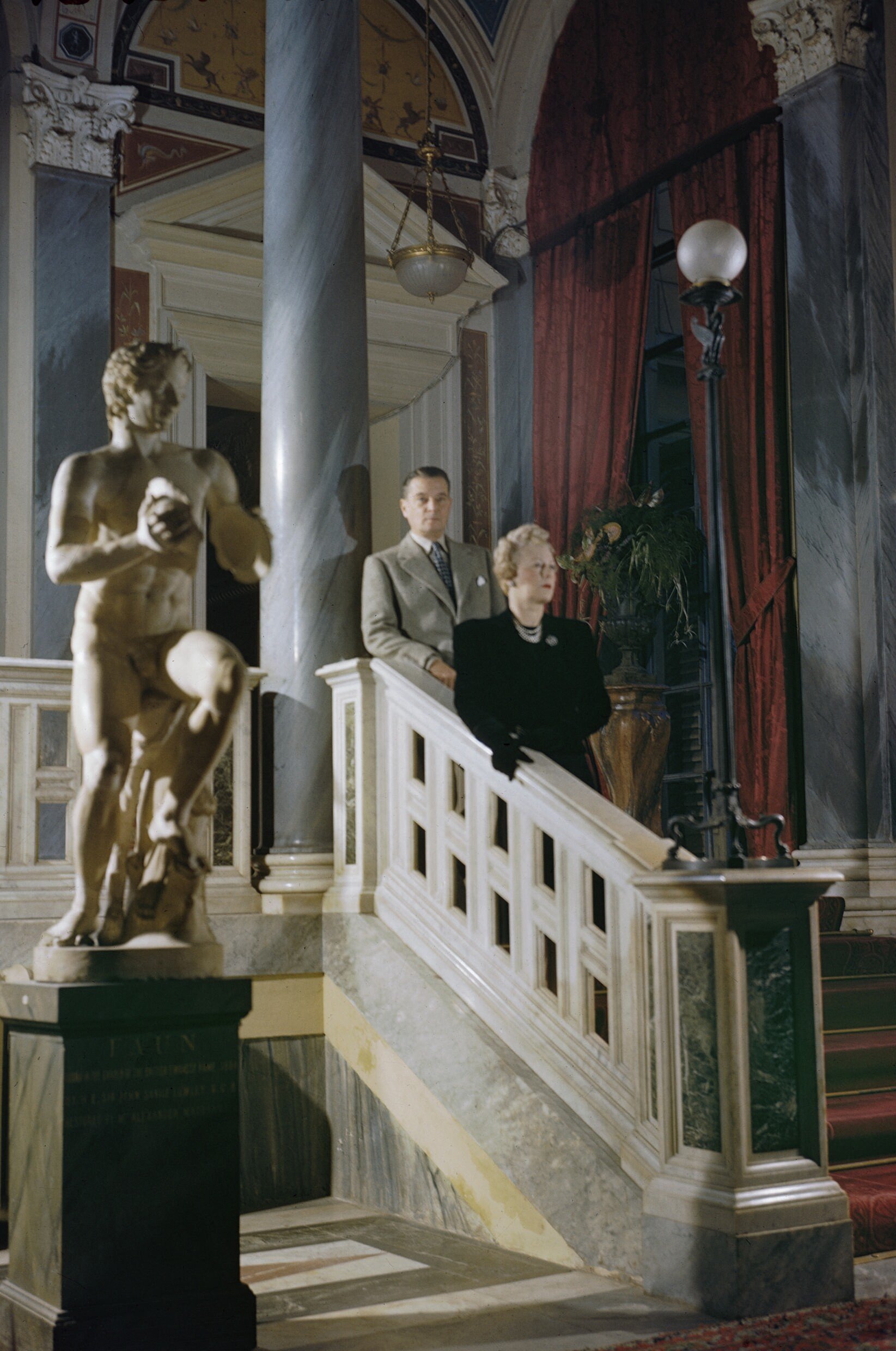 The British Ambassador To Italy, 12 December 1944 The British Ambassador to Italy, Sir Noel Charles and Lady Charles pose in the entrance hall of the British Embassy in Rome.